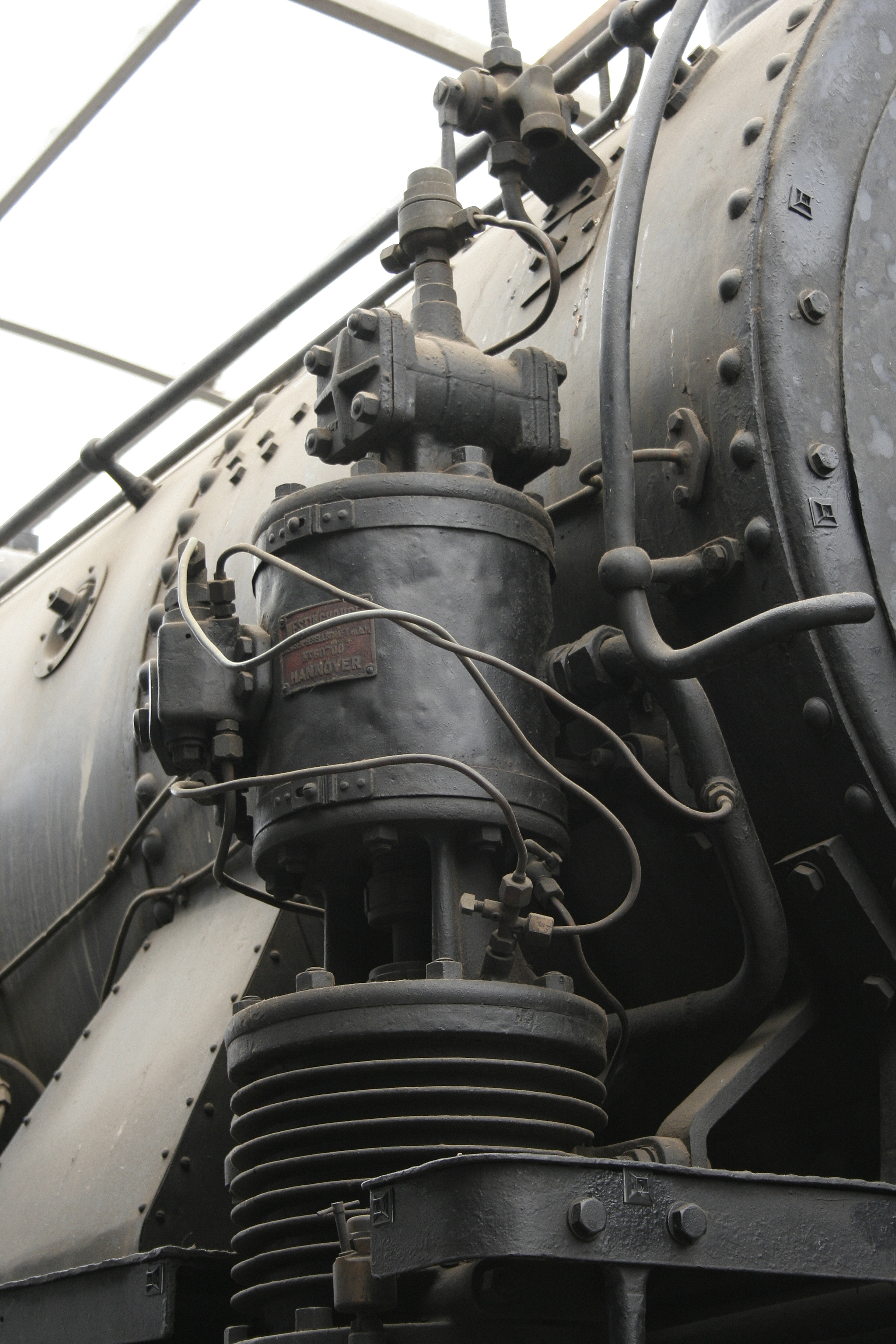 Westinghouse pump of locomotive FS 744